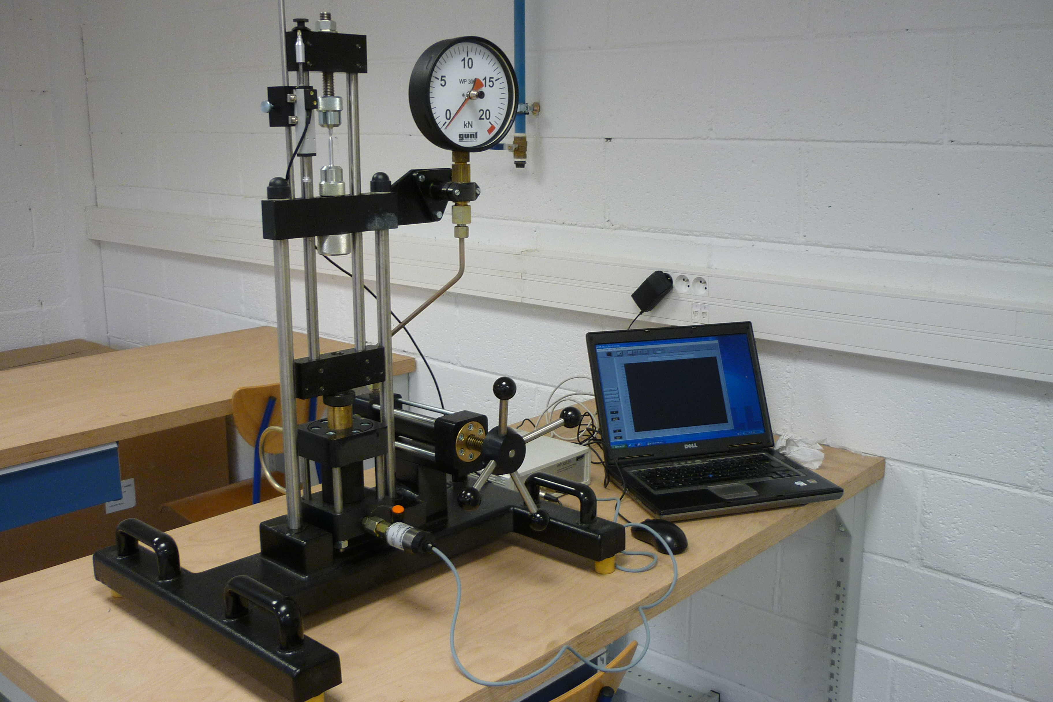 Gunt WP300 tensile testing machine, for educational purpose.